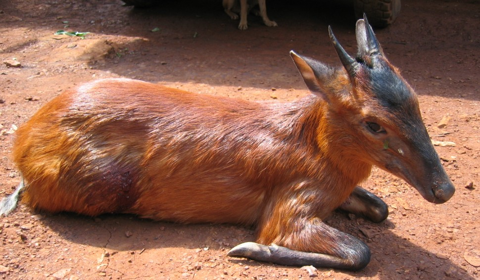 cephalophe a front noir